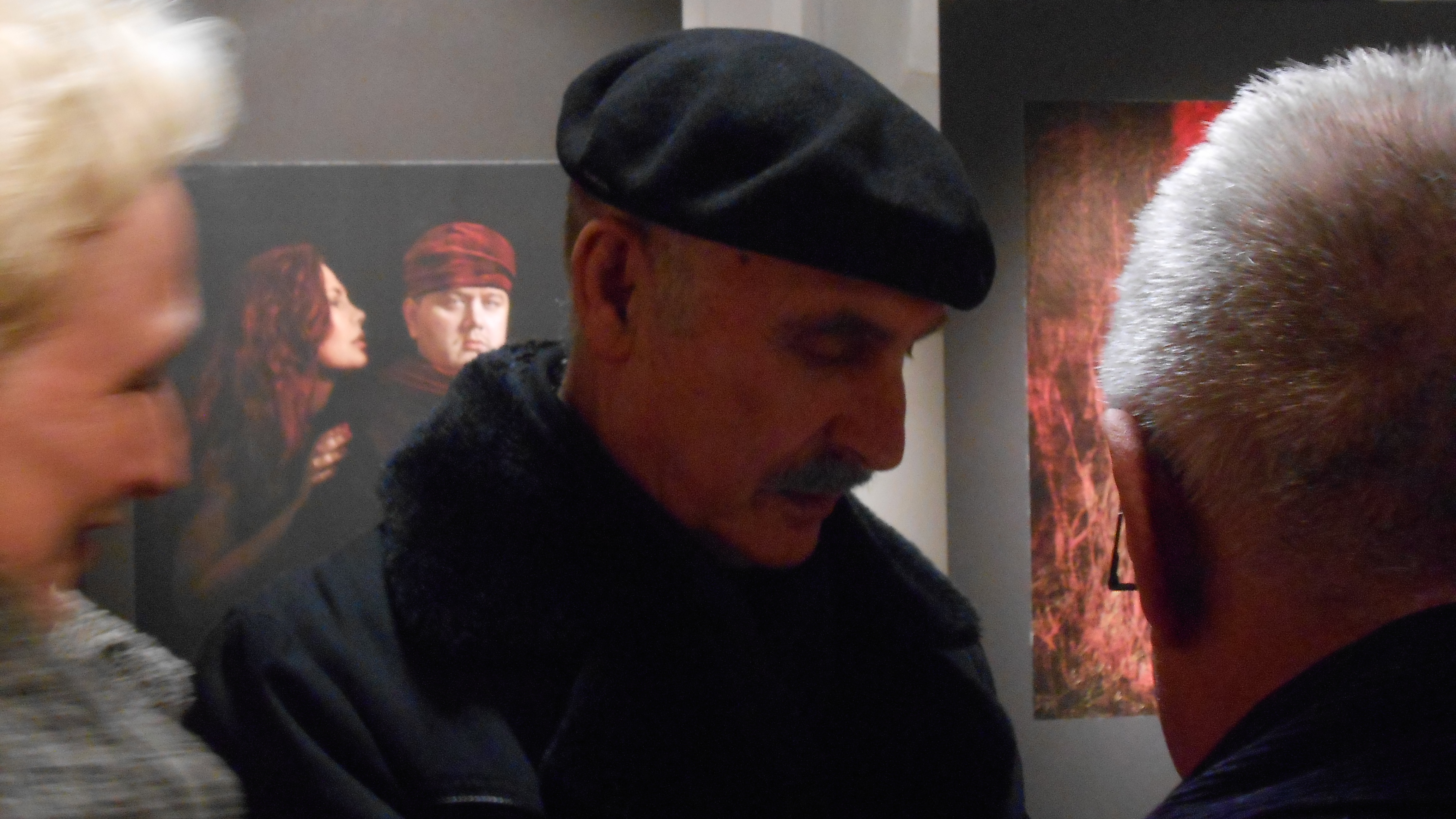 Portuguese singer Vitorino Salomé after his concert in the Bleckkirche church in Gelsenkirchen, Germany, 21th march of 2014